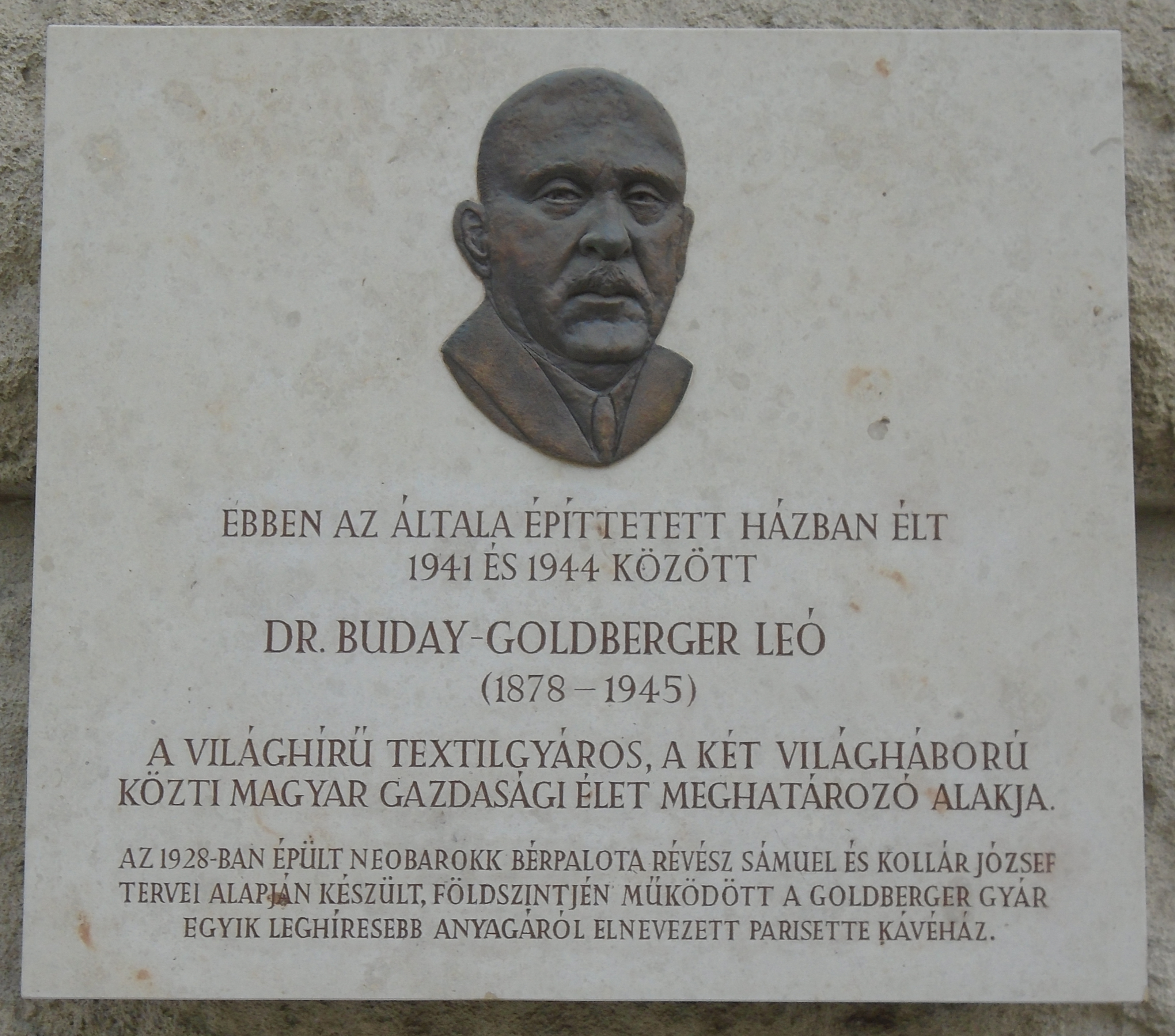 Leó Goldberger's commemorative plaque in Budapest District V.